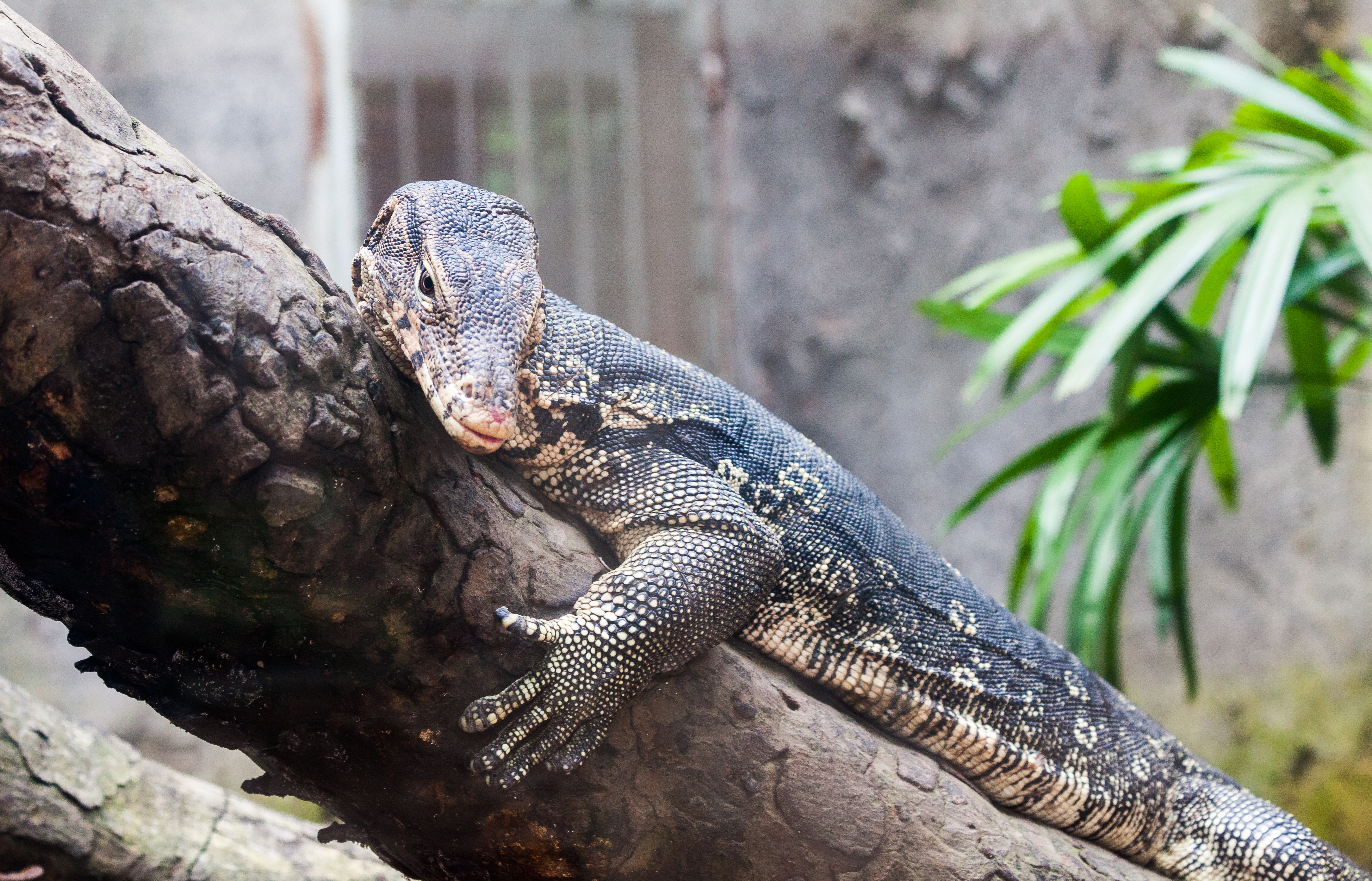 Water monitor (Varanus salvator), Ho Chi Minh City Zoo, Vietnam